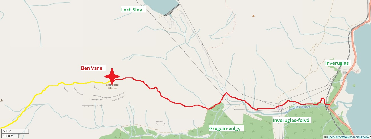 Trails to the summit of Ben Vane.